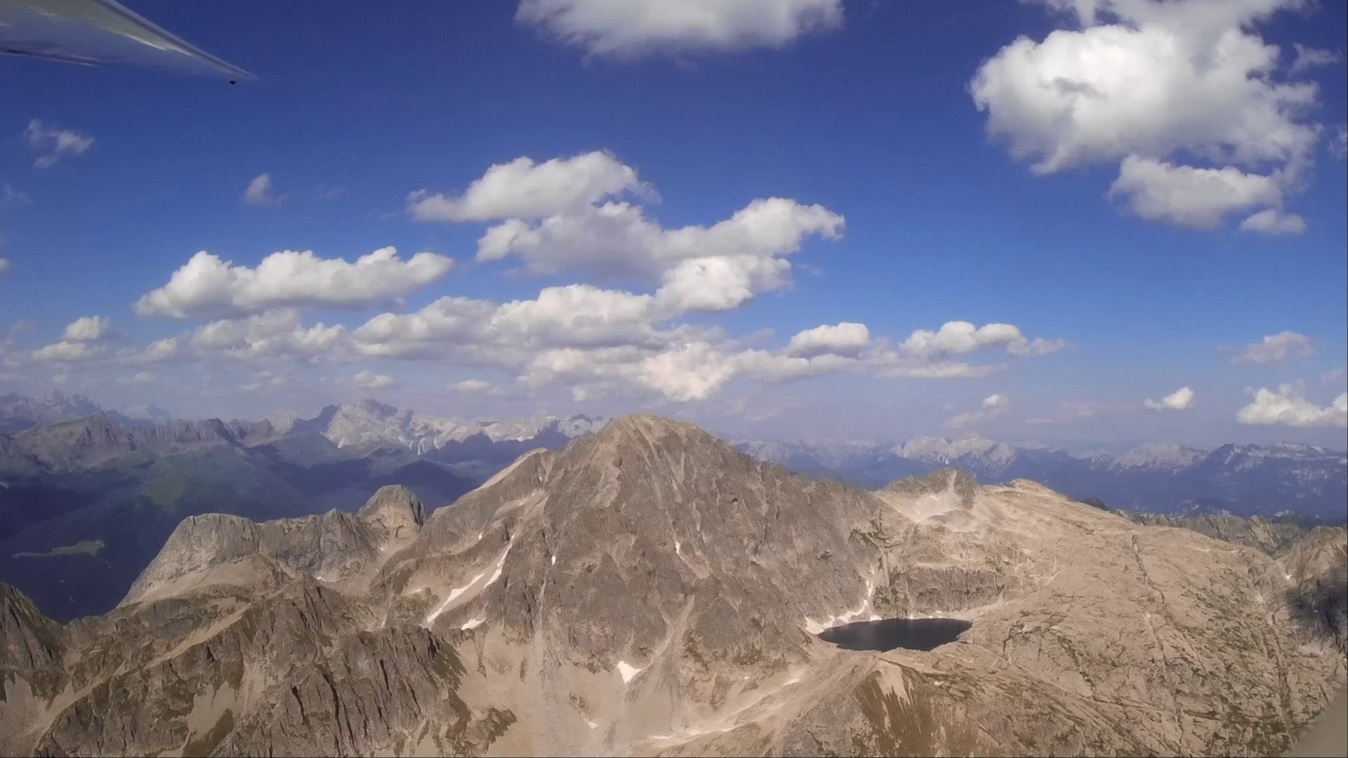 Cima D'Asta with the small Lago di Cima d'Asta to its South. The image was shot on July 18, 2018 at 15:19UTC, from the cockpit of my Club Libelle single seat glider during a long, scenic summertime flight.